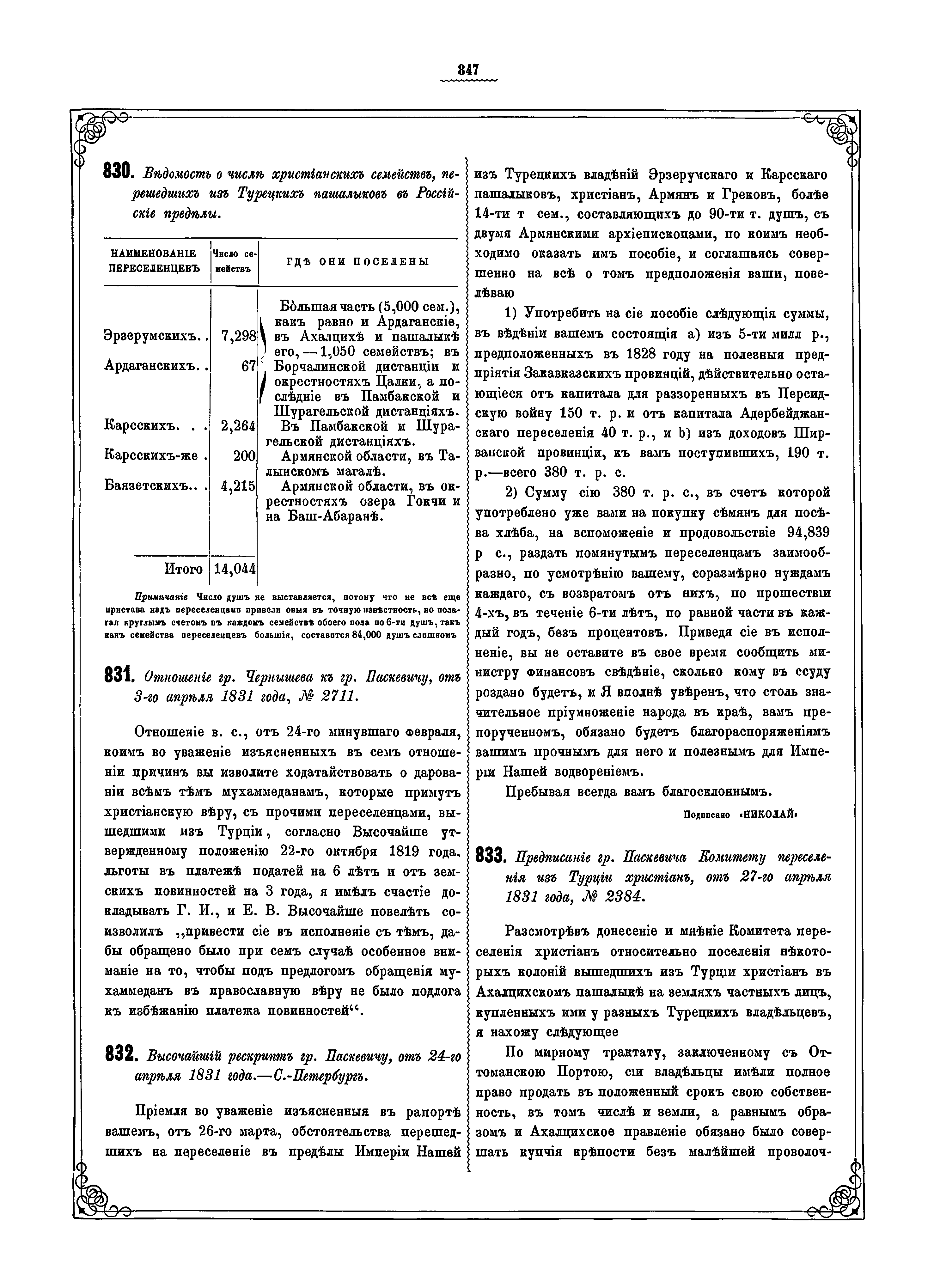 Resettlement of christians (Armenians for the most part; in a small number of Greeks) after the Treaty of Adrianople (1829)